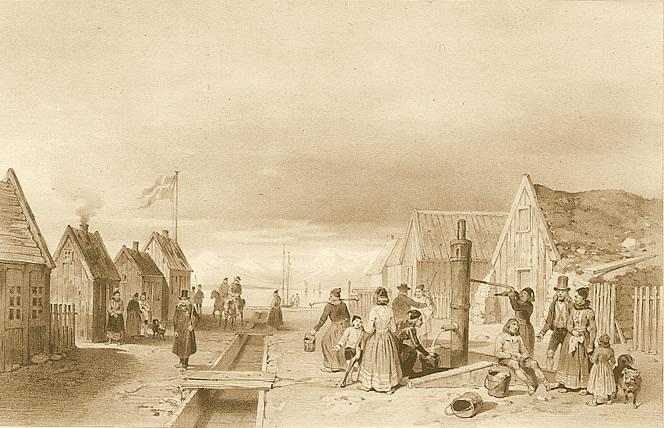 Reykjavik downtown 1836 in August Mayer expedition